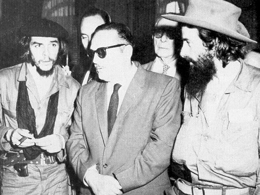 Cuban President Manuel Urrutia with rebel leaders Che Guevara and Camilo Cienfuegos (1959).